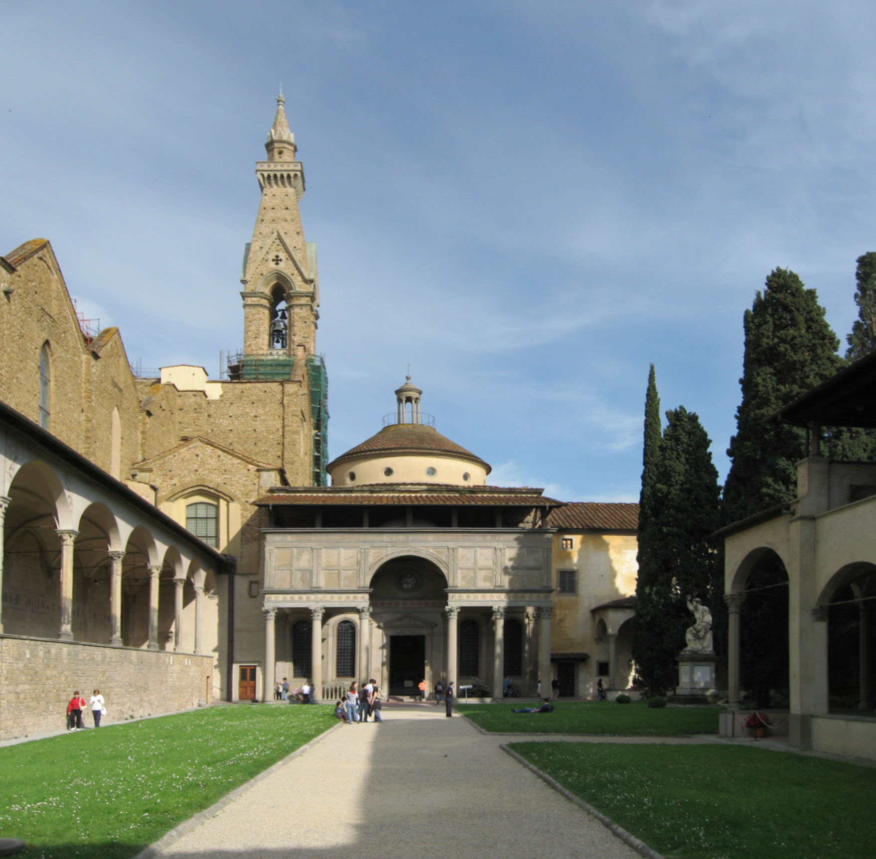 The Pazzi Chapel in Florence.